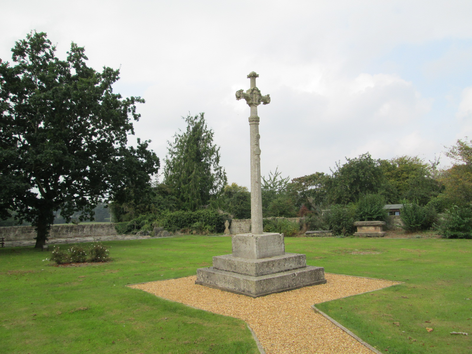 Monument to William Walsham How, first Bishop of Wakefield (died 1897), and his wife. Adjacent to the castle grounds in Whittington, Shropshire.